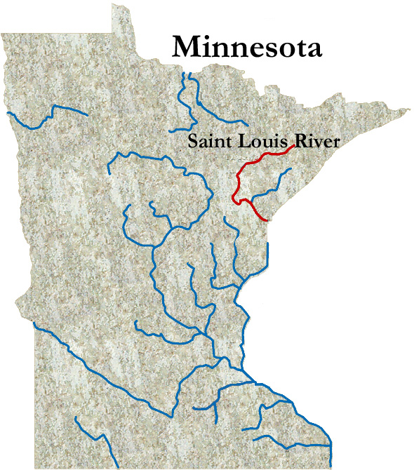 Created by myself. Photoshop 7.0